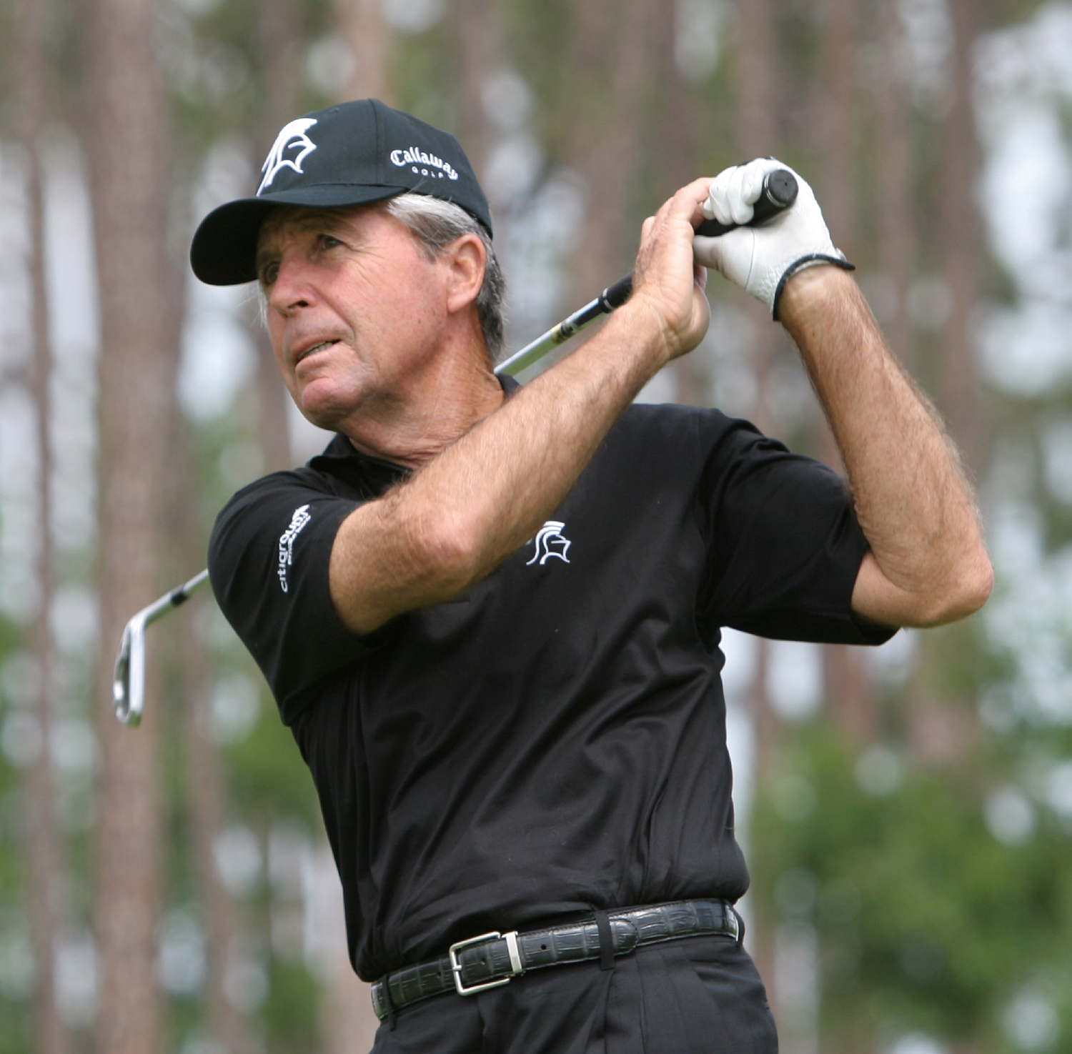 A picture of Mr. Player on the follow though of a shot.